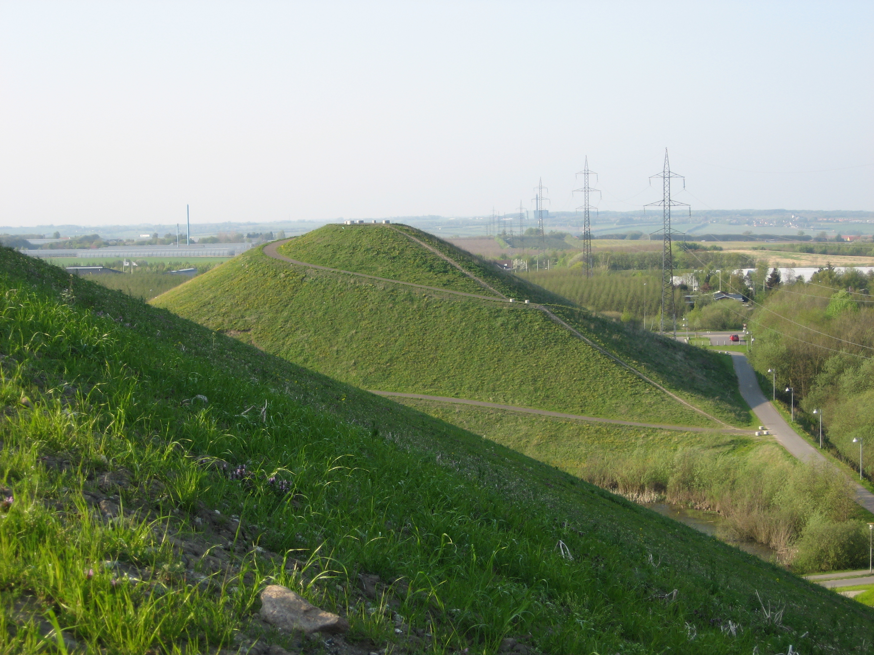 View of "spiralen" from "bjergkammen" at Hasle Bakker, Århus, Denmark.